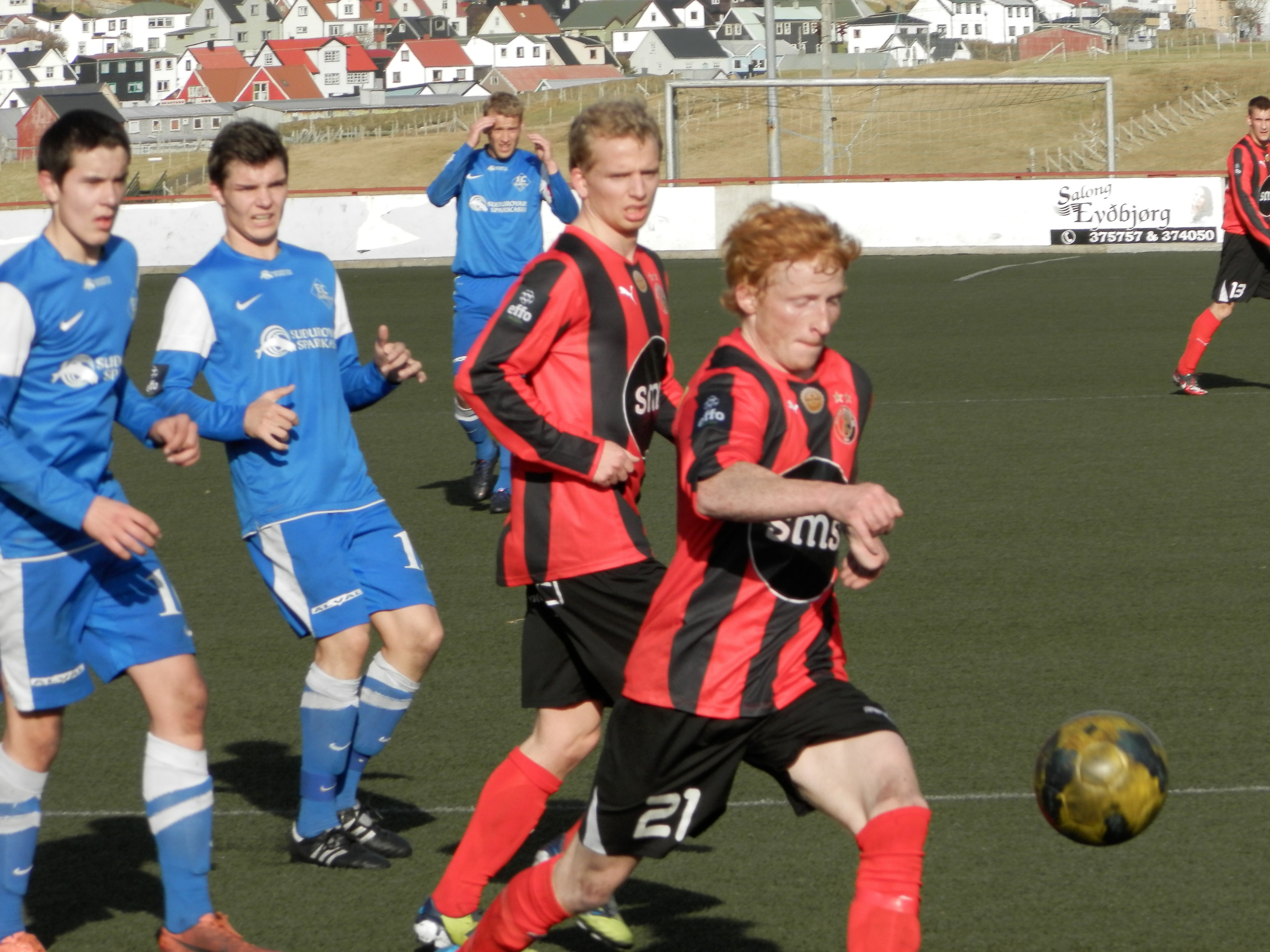 Association football match in Effodeildin in the Faroe Islands (Effodeildin is the men's best division). This match was played on 23 September 2012 in Vágur between FC Suðuroy and HB Tórshavn. HB Tórshavn won the match 4-0. Føroyskt: Fótbóltsdystur í Effodeildini 2012 millum FC Suðuroy og HB á Eiðinum í Vági. HB vann dystin 4-0.